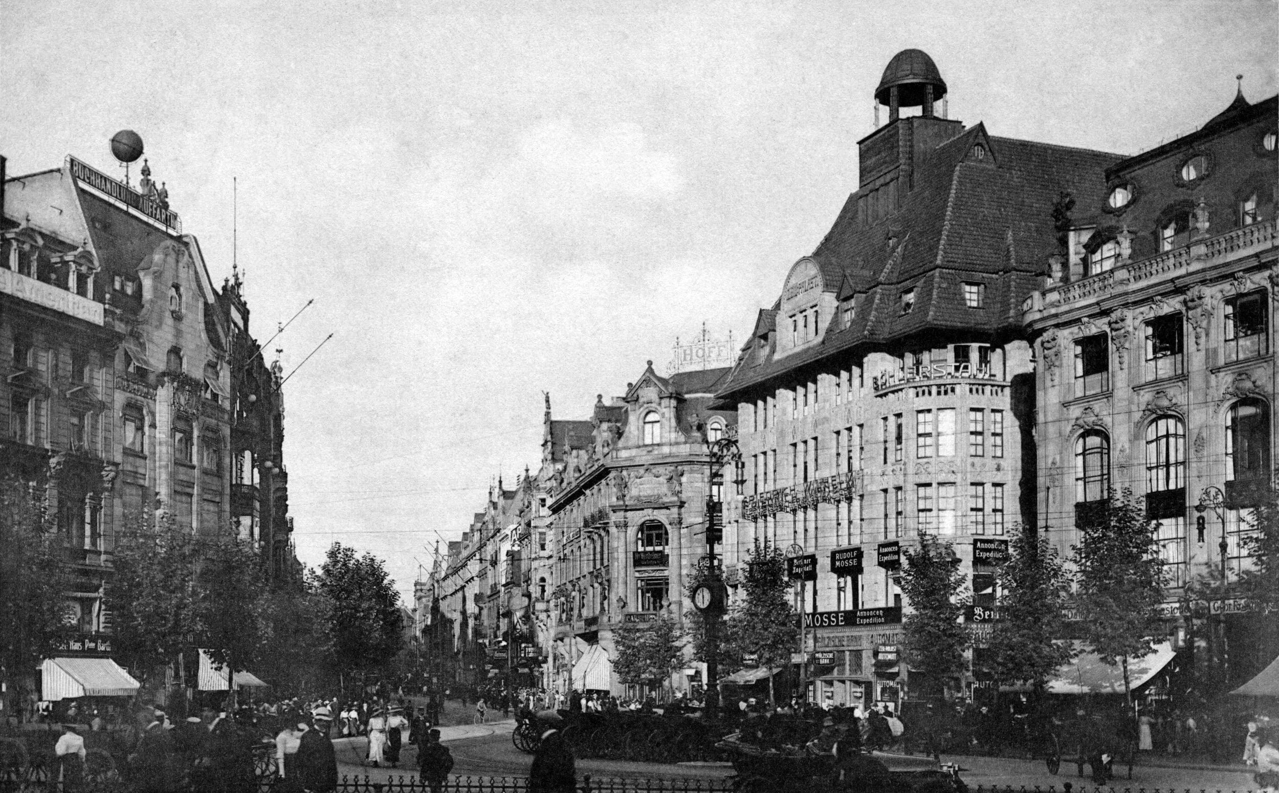 Frankfurt on the Main: Zeil as seen to the east from the Hauptwache; buildings from right to left: Robinsohn (1904–1905, truncated), Zeilpalast (1908–1910), Gebrüder Hoff (1893–1896), in the middle ground Wronker (1908–1909), on the other side of the street Frank & Baer (1904), Auffahrt (1902) and Fratzeneck / Kaiser Karl (1882–83, truncated)